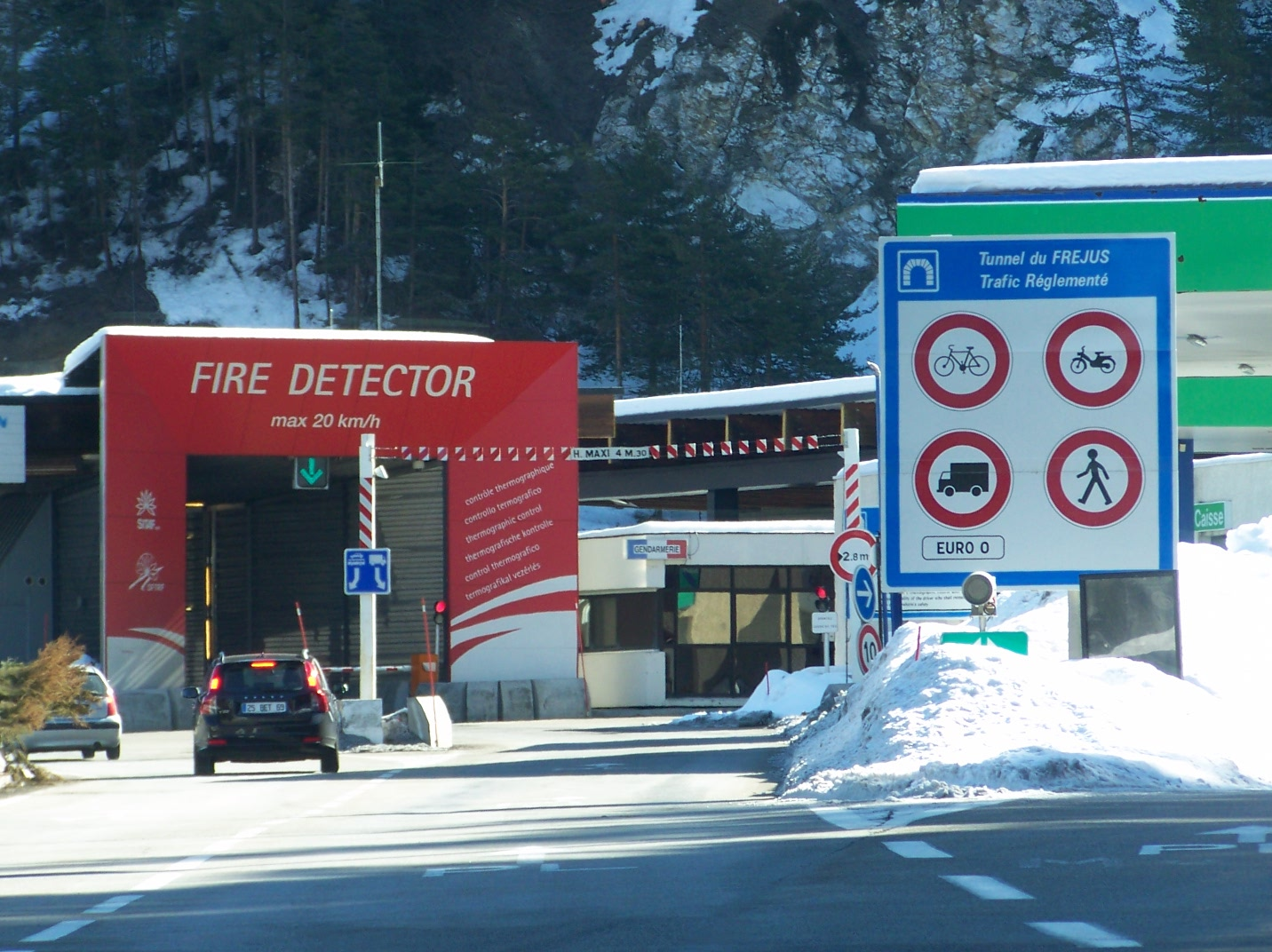 Arrival at tunnel du Fréjus on its French side in Savoie.